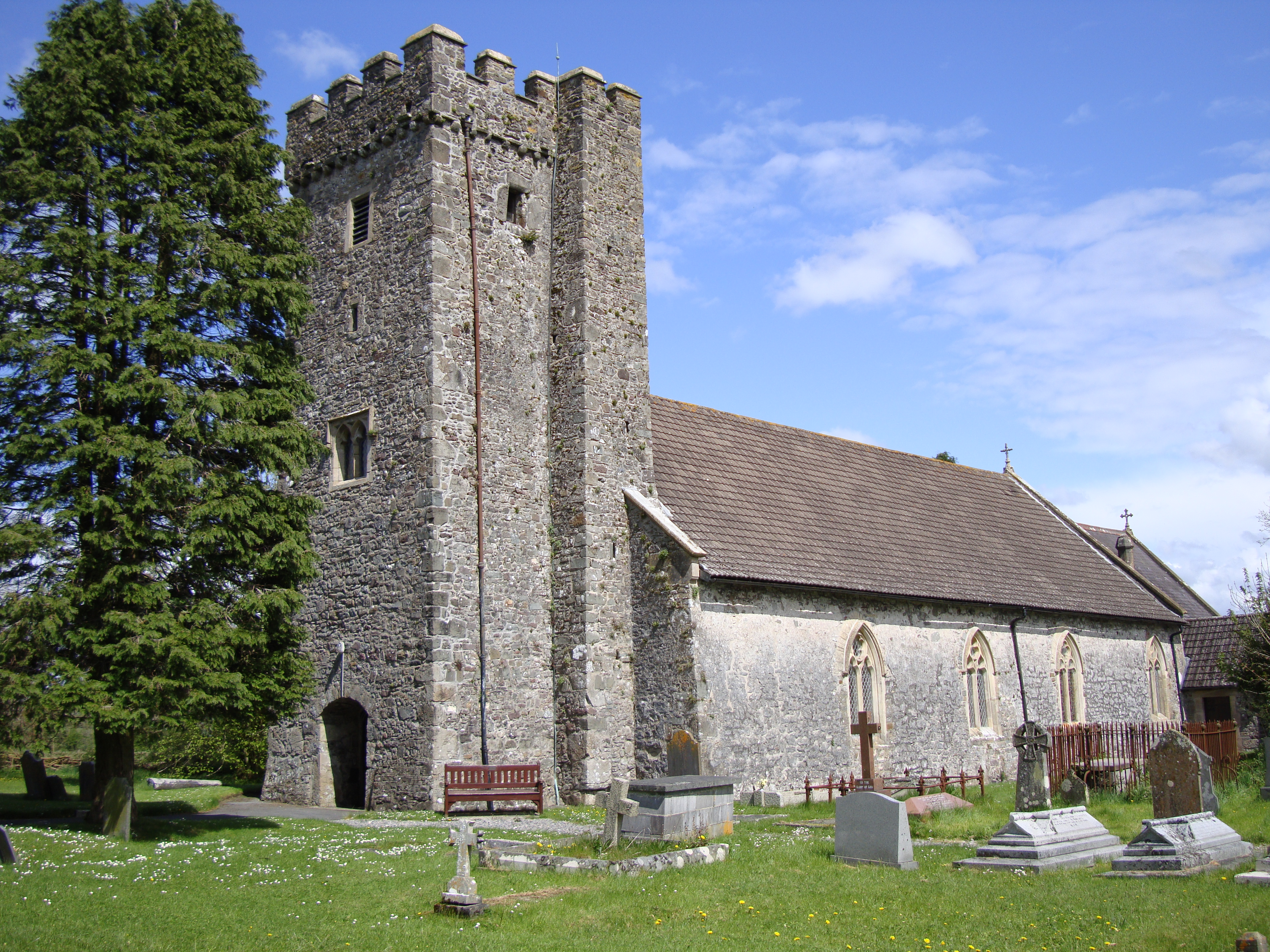 Photograph of St Clears Priory